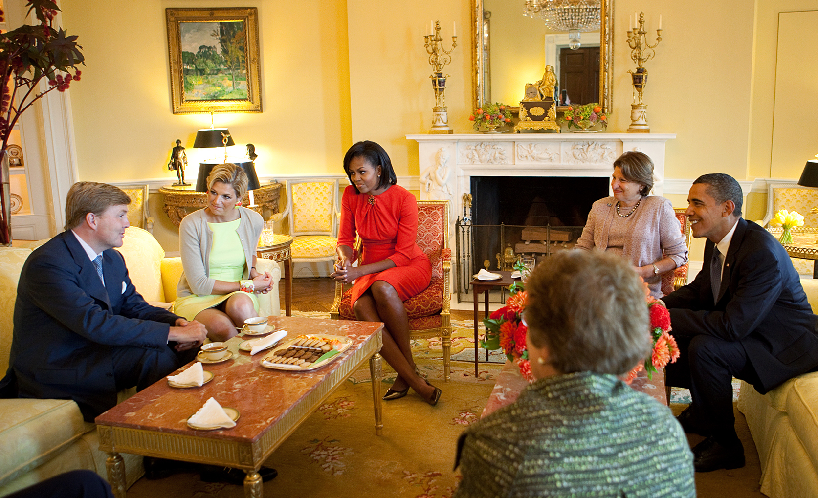 President Obama Meets Dutch Royal CoupleSeptember 11 First Lady Michelle Obama and President Barack Obama met with Crown Prince Willem-Alexander and Princess Máxima of the Netherlands in the Yellow Oval Room of the White House in Washington, D.C. Left of President Obama is Chief of Staff to the First Lady, Susan Sher, In the forefront Ambassador Hartog Levin. c.f. Obama praises Dutch health care for more info on the event.(Official White House Photo by Samantha Appleton)